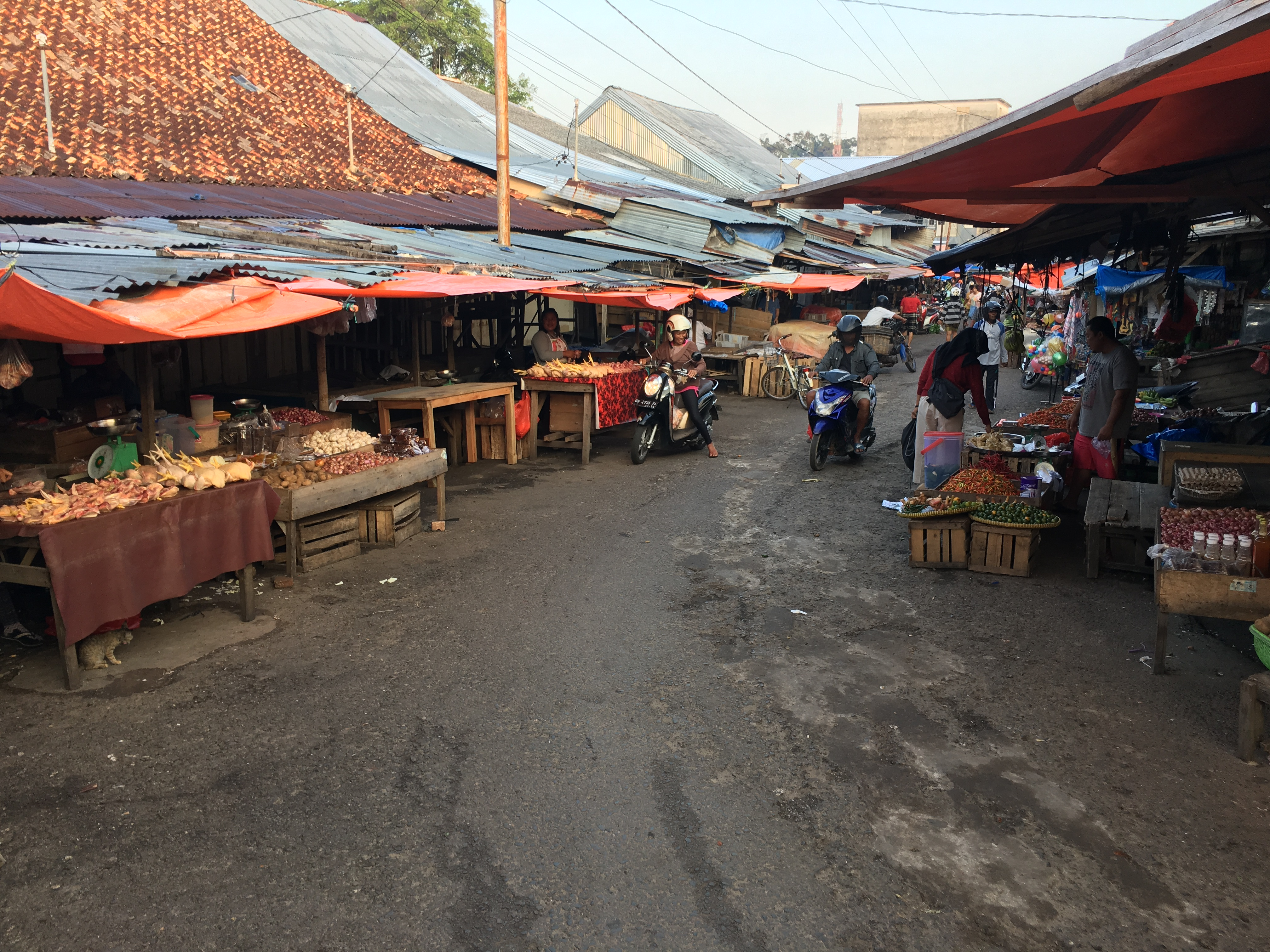 Wet market in Toboali